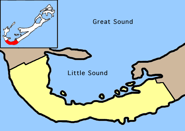 Map of Bermuda showing Southampton parish.